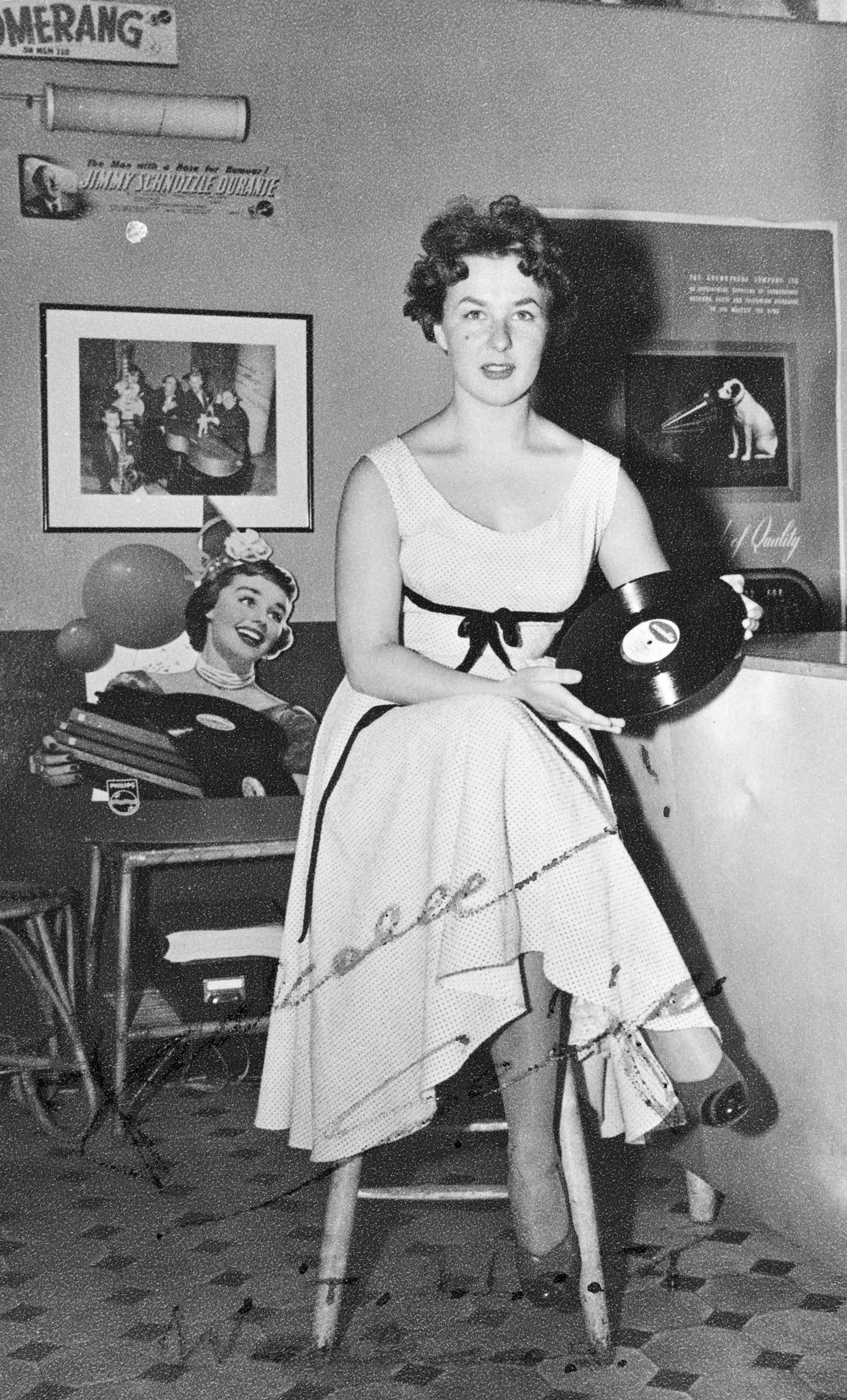 Photograph of the Finnish vocalist Seija Lampila (1936–).